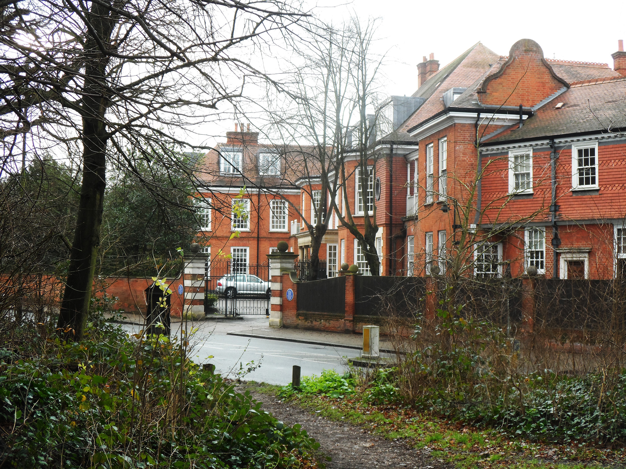 Sir Ronald Aylmer Fisher 1890-1962 Statistician and Geneticist lived here 1896-1904